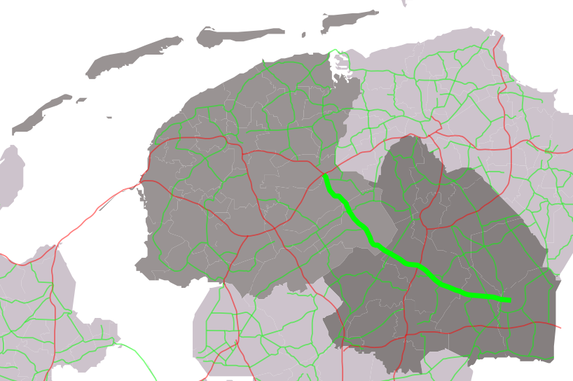 Map of Drenthe and Friesland with Dutch provincial road no. 381